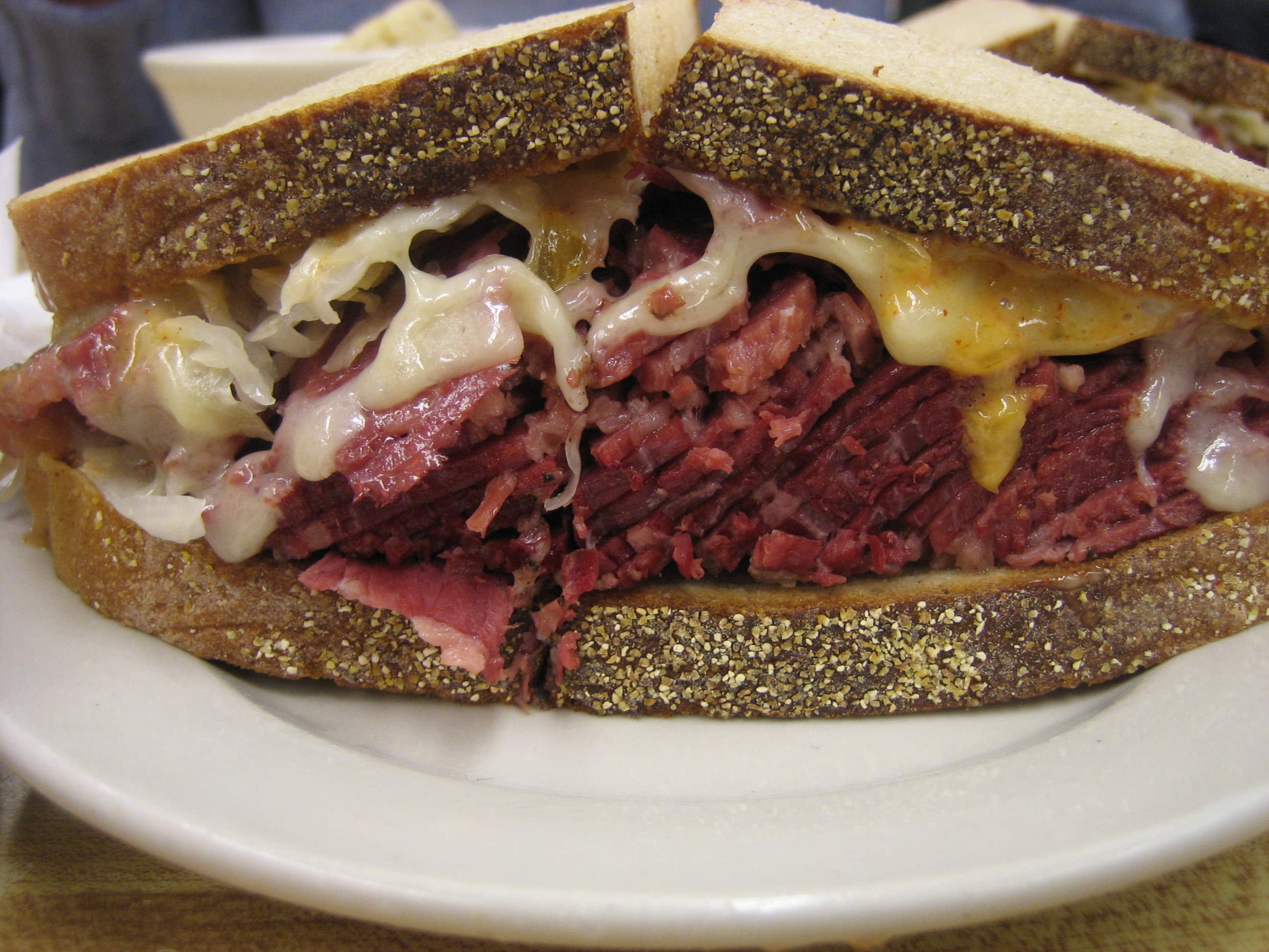 Reuben on rye